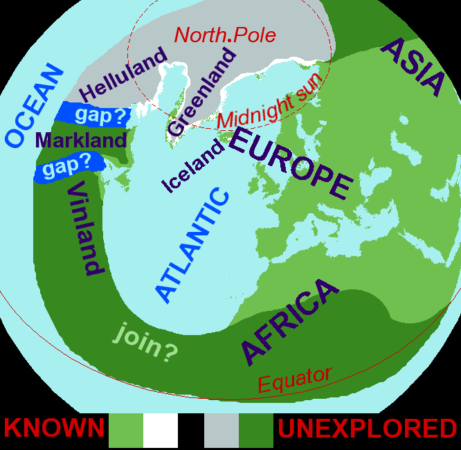 The medieval Icelandic conception of northern regions, based on an interpretive sketch by A.A. Bjornbo reproduced in "Vikings: The North Atlantic Saga" (ISBN 1560989955) p262.